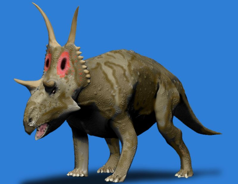 "Diabloceratops eatoni", a ceratopsian from the Late Cretaceous of Utah (the description has not been published yet). Digital.